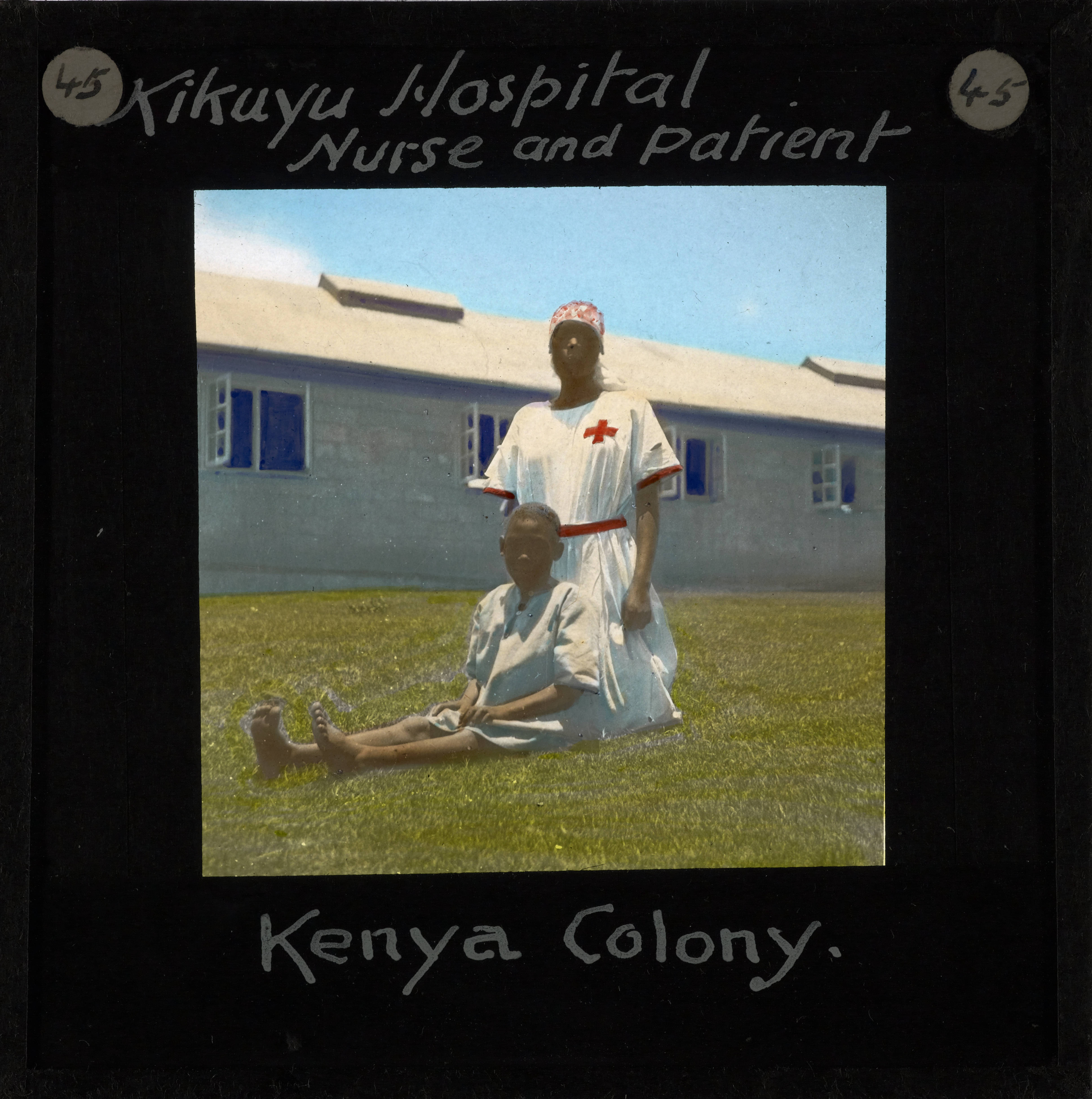 Kikuyu Hospital Nurse and Patient, Kenya, ca.1905-ca.1940 "Kikuyu Hospital Nurse and Patient, Kenya Colony" Photograph of a nurse and patient from Kikuyu Hospital. They are pictured outside one of the hospital buildings. The patient, a young boy, is sitting on grass with the nurse kneeling behind him. Kikuyu Hospital was established by Scottish missionaries in 1908.; This belongs to a series of Church of Scotland Foreign Missions Committee lantern slides relating to the Kikuyu Mission in Kenya, which was set up by Church of Scotland missionaries. Hospitals were established by Scottish missionaries in Kikuyu in 1908, in Tumutumu in 1909, and in Chogoria in 1922. The missionaries also introduced the Presbyterian Church to the area. The Kikuyu are Kenyaas most populous ethnic group. Photographer: Unknown Filename: imp-cswc-GB-237-CSWC47-LS7-045.tif Coverage date: 1905/1940 Part of collection: International Mission Photography Archive, ca.1860-ca.1960 Type: images Part of subcollection: Photographs from the Centre for the Study of World Christianity, University of Edinburgh, U.K., ca.1900-ca.1940s Repository name: Centre for the Study of World Christianity Archival file: impaunpub_Volume7/1651.url Repository address: The University of Edinburgh School of Divinity, New College, Mound Place, Edinburgh EH1 2LX, United Kingdom Geographic subject (country): Kenya Format (aacr2): 1 lantern slide : 8 x 8 cm. Geographic subject (continent): Africa Rights: Contact the repository for details. Part of series: Kenya Mission LS7 Repository Subject (lcsh Keyword): Hospitals; Medical care; Hospital patients Date created: 1905/1940 Publisher (of the digital version): University of Southern California. Libraries Subject (aat genre): group portraits Format (aat): lantern slides Legacy record ID: impa-m68758 Access conditions: File: GB 237 CSWC47/LS7/45